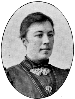 Image scanned from the book "Svenskt Porträttgalleri XX - Arkitekter, Bildhuggare, Målare m.fl. " ("Swedish Portrait Gallery XX - Architects, Sculptors, Painters, ") published 1901